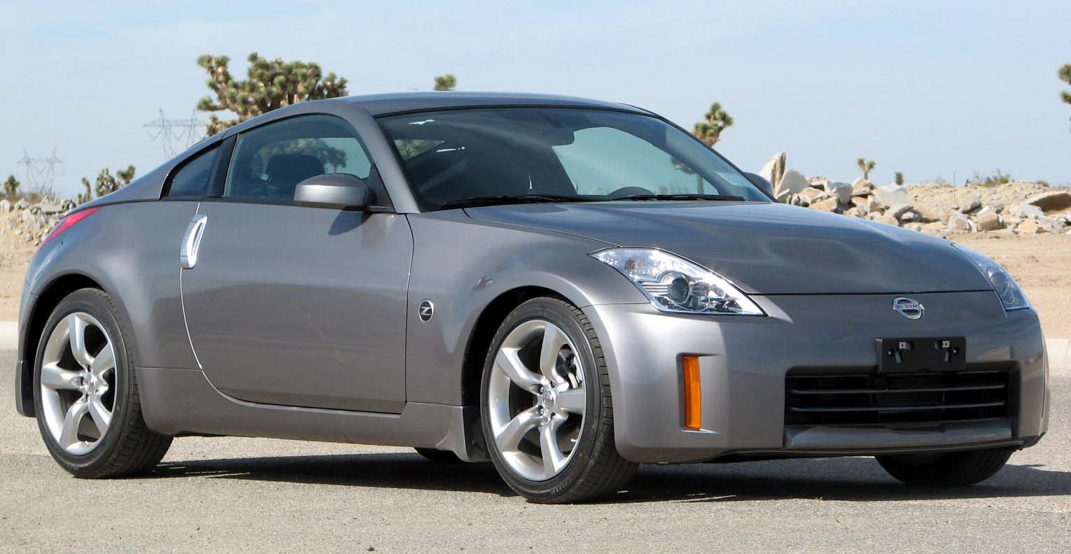 2008 Nissan 350Z photographed in USA.